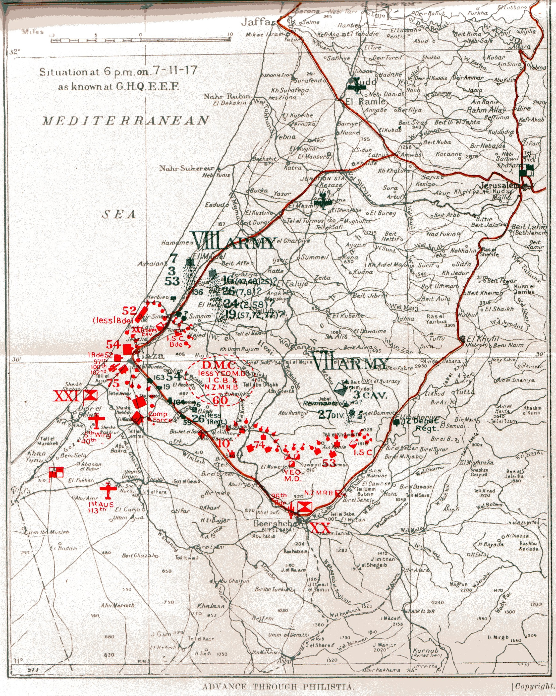 Map of situation as known to the General Headquarters of the EEF on 7 November 1917 Other information Government publication - official history